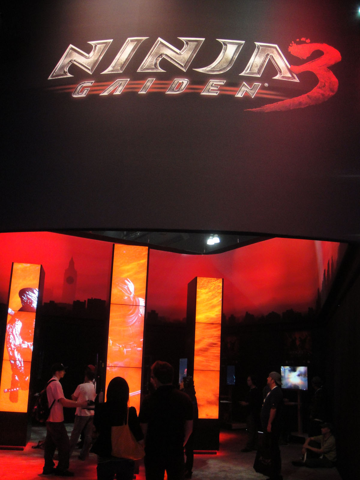 Ninja Gaiden 3 promotion at E3 2011.